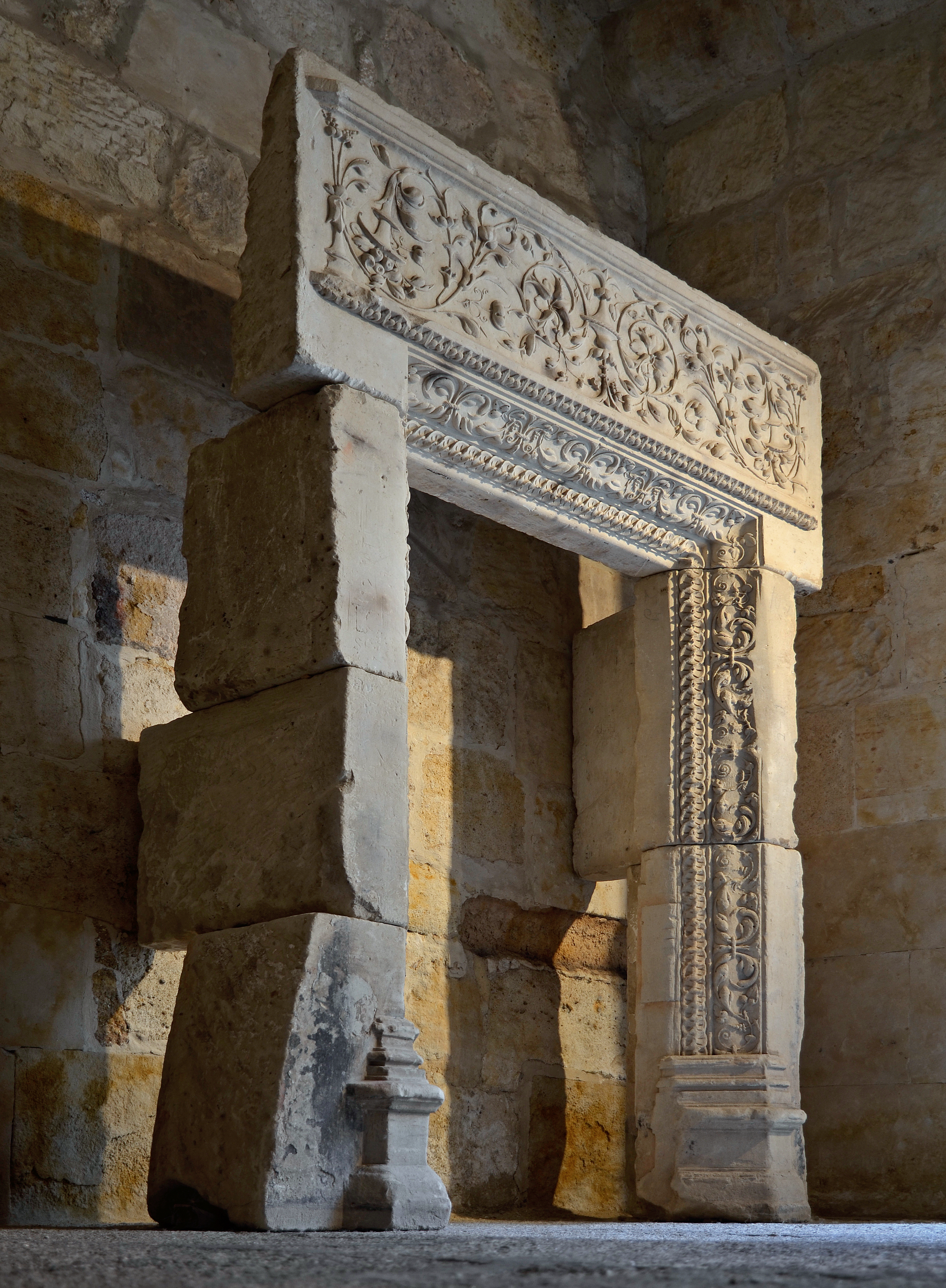 Stone portal (Plateresque style - XVIth century, unknown origin) - Fine arts Museum - Salamanca